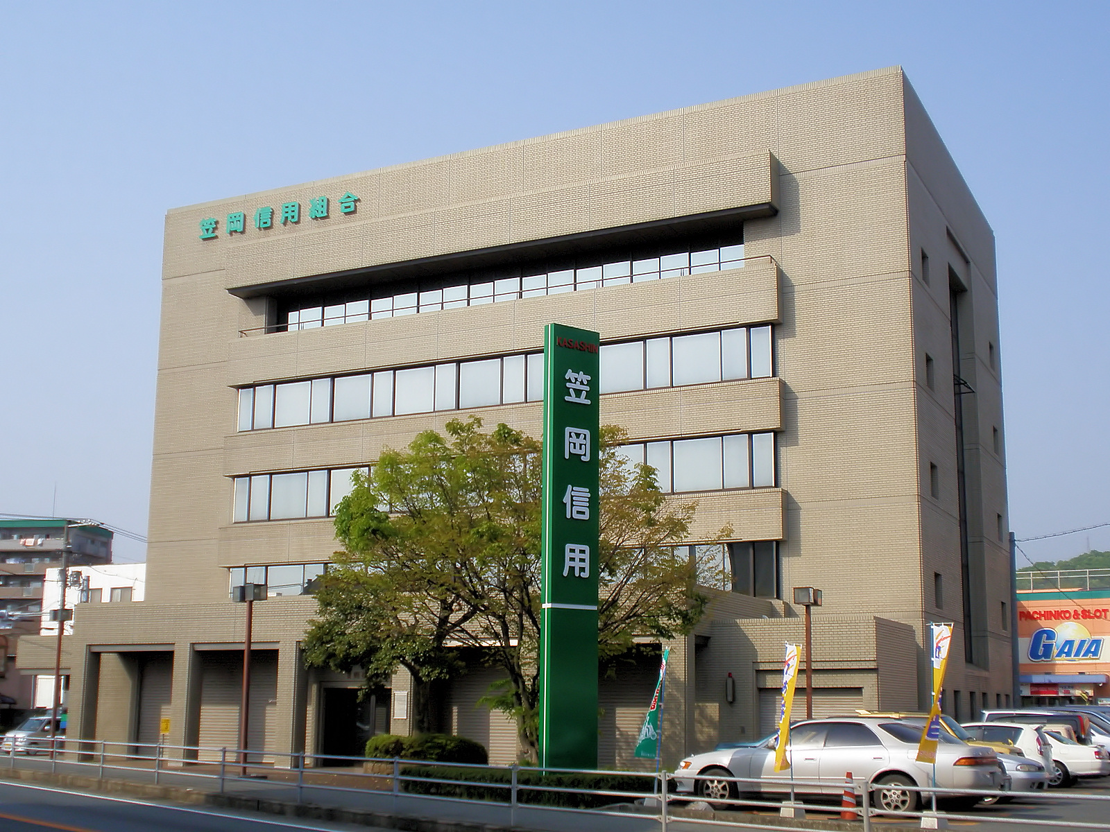 Kasaoka Credit Cooperative head store.